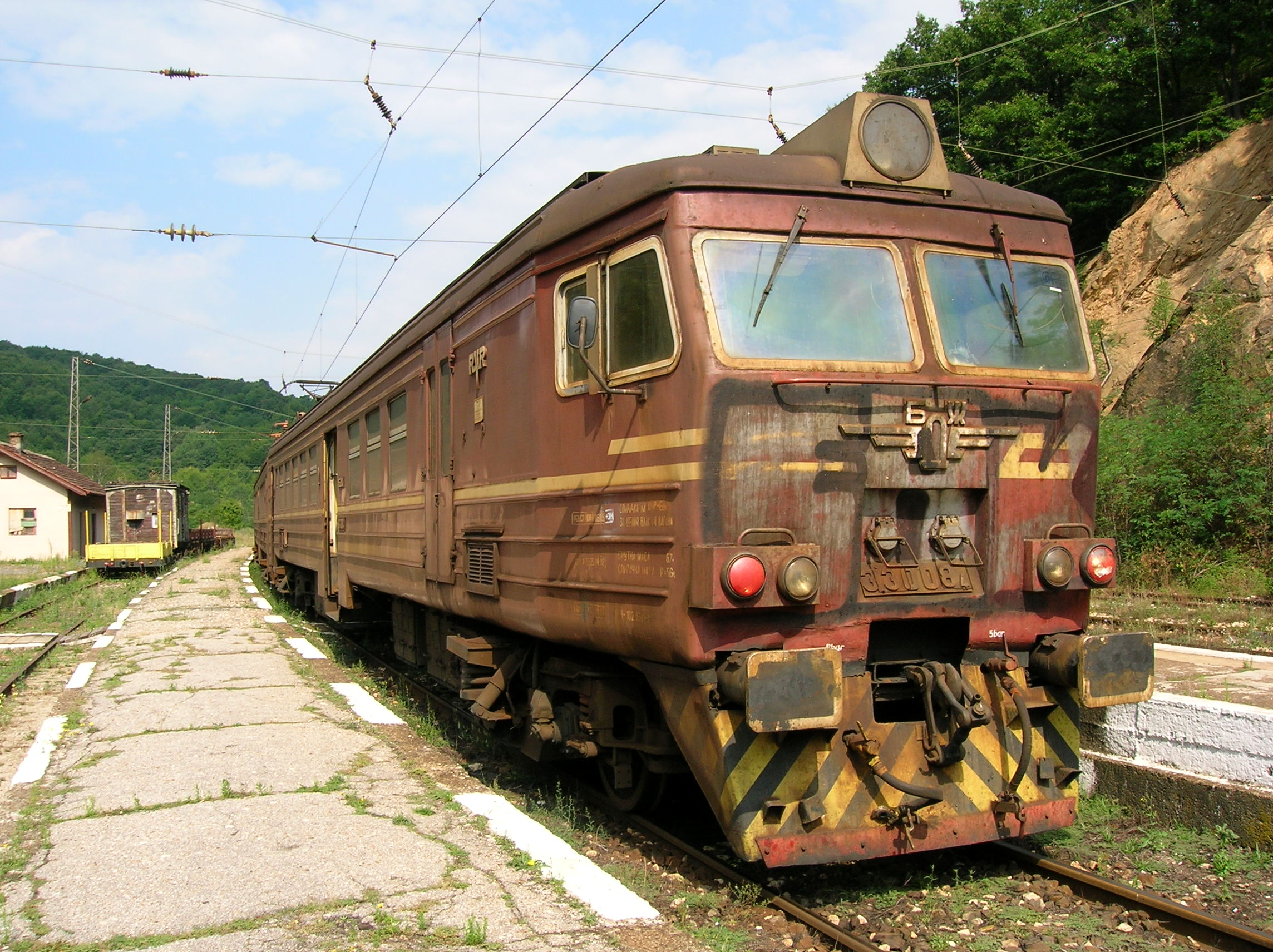 Rusty train in Koprivshtitsa train station (Bulgaria). BDŽ class 33